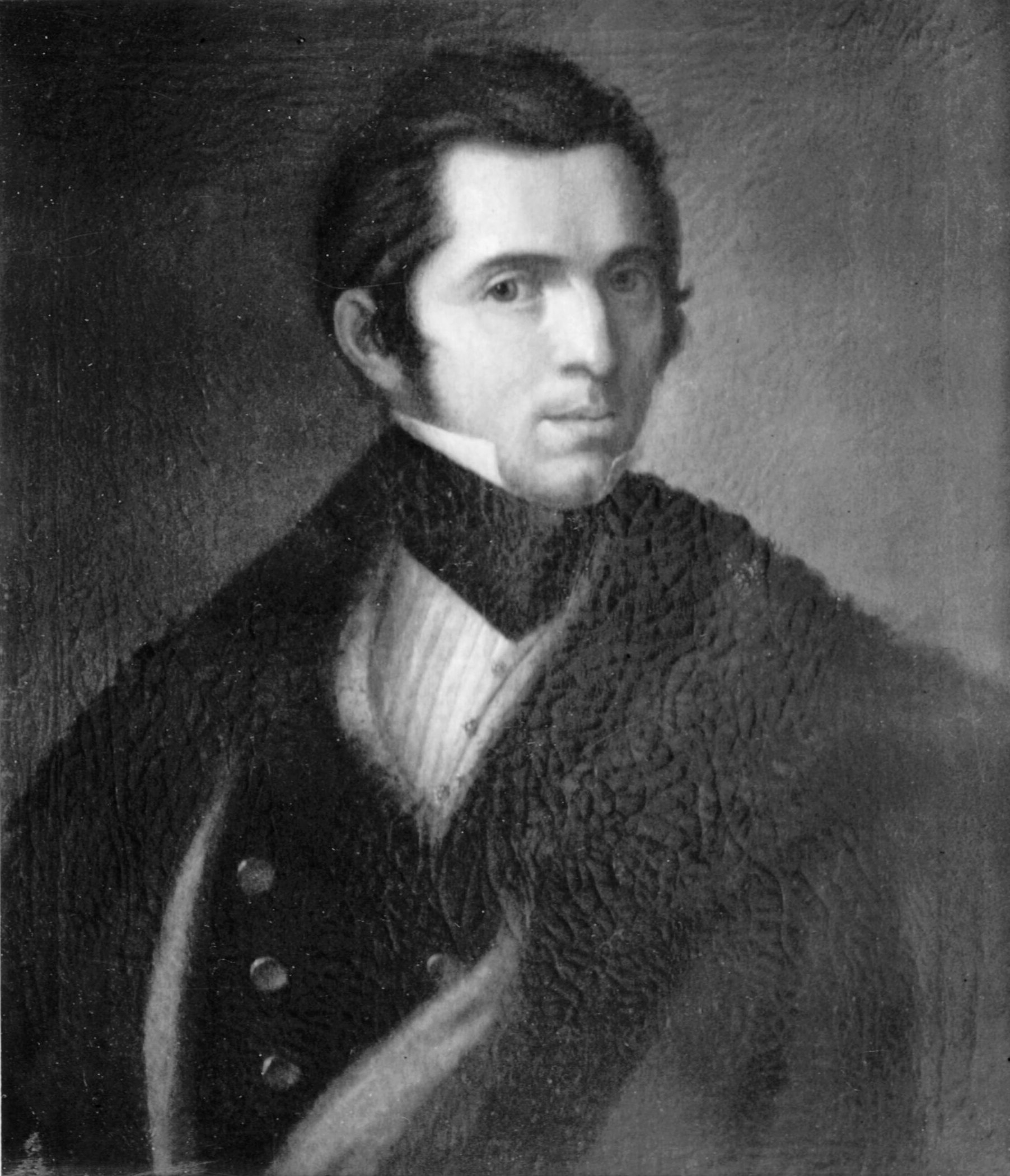 Selfportrait by the Dutch painter Berend Wierts Kunst (1794-1881).